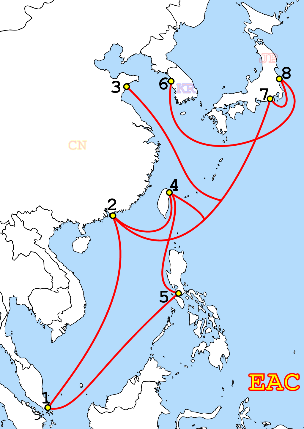 Route of the EAC submarine communications cable. For more information regarding numbered landing points, see Main article.